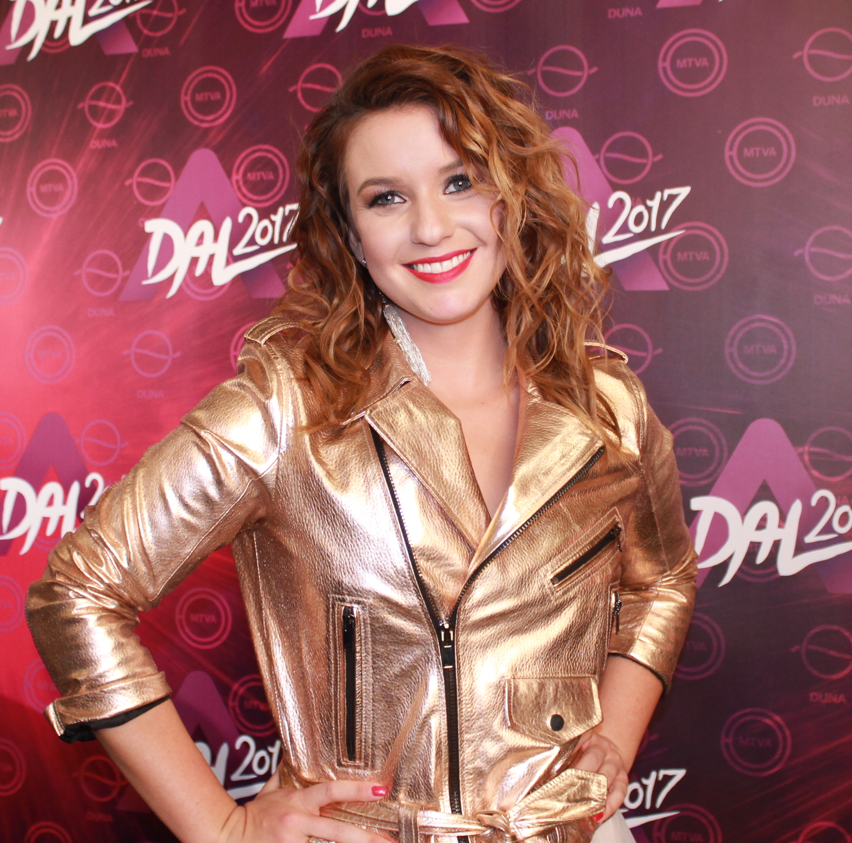 Kriszta Rátonyi, deputy host of A Dal 2017 after the first semi-final